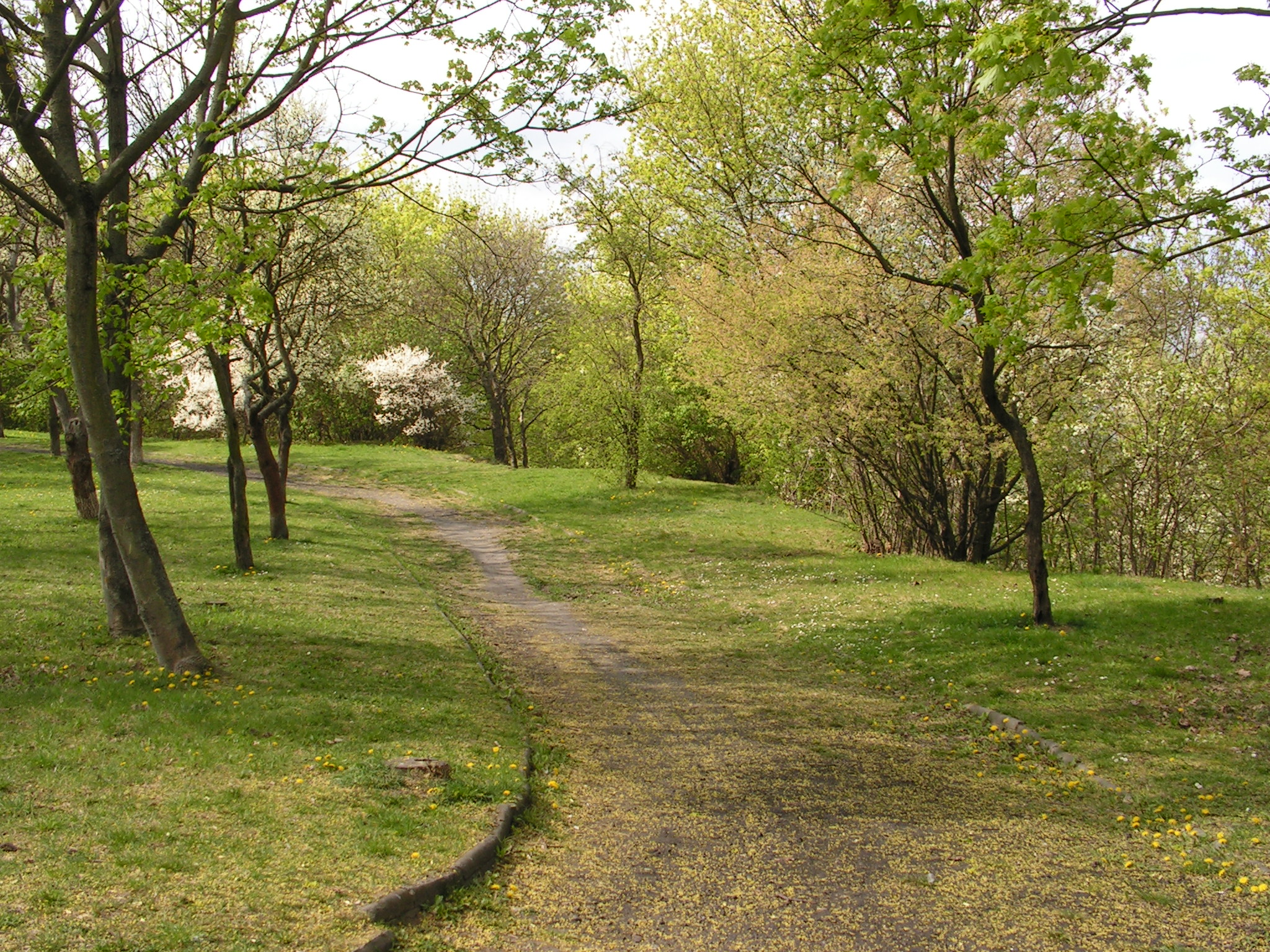 Greenspace in Zazamcze.